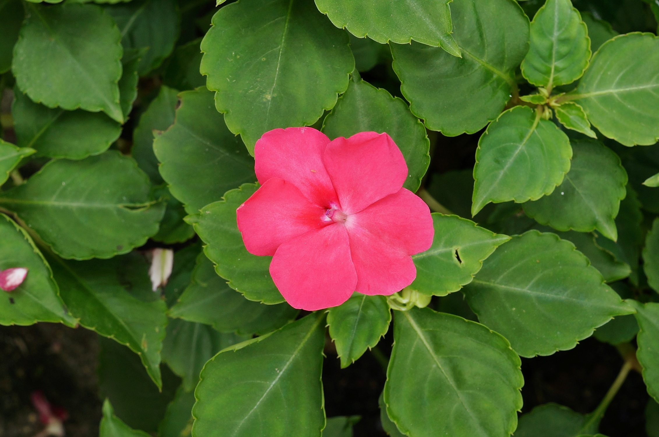 Busy Lizzie